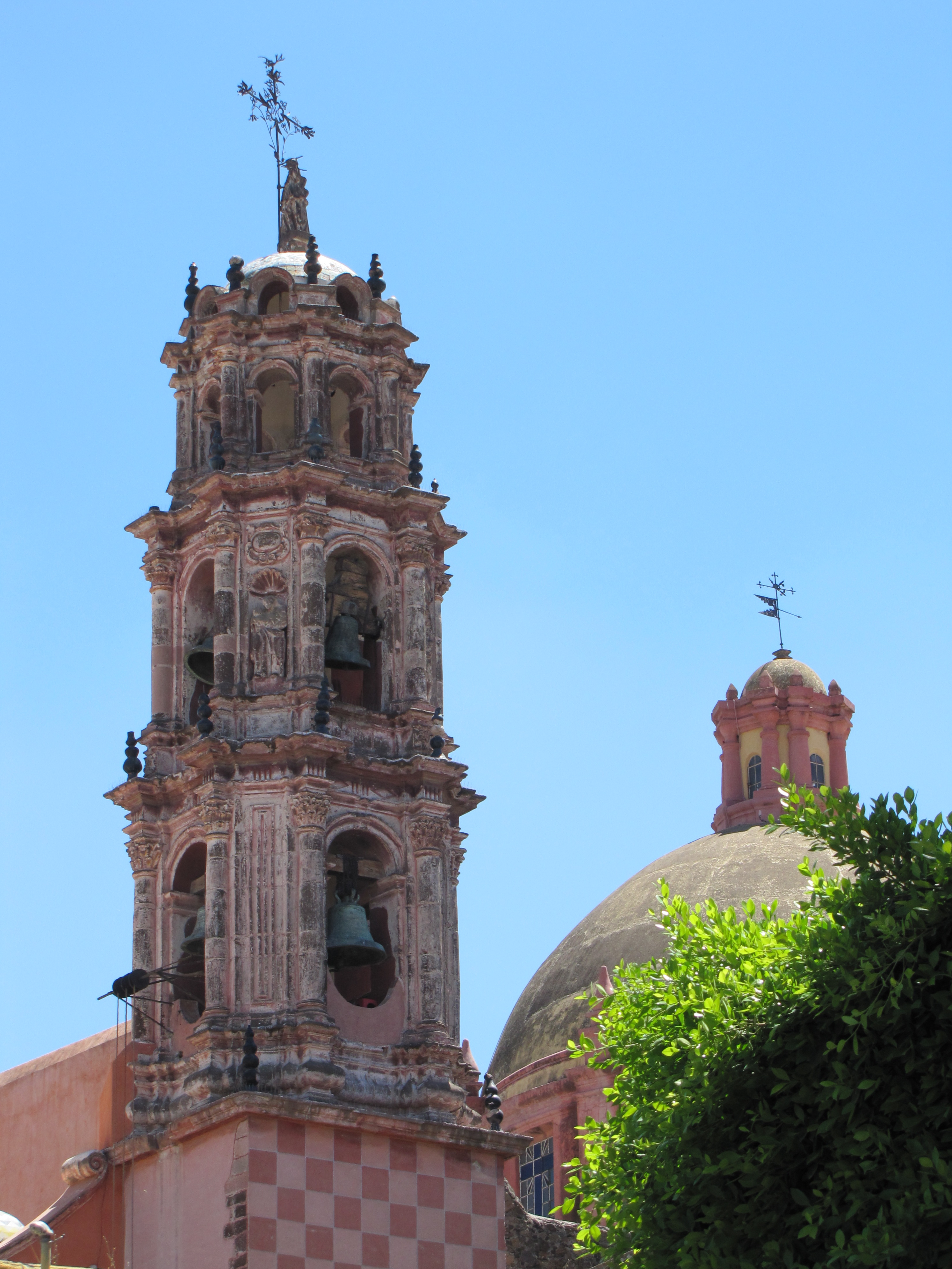 A church tower in San Miguel de Allende, Guanajuato, Mexico